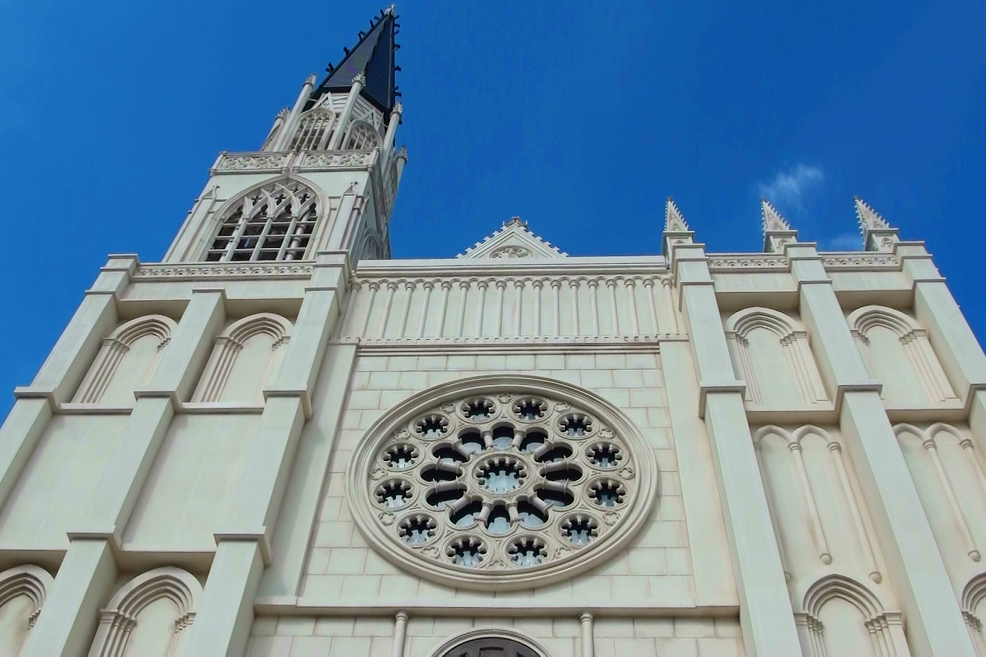 Apio(Marriage ceremonial hall)Capel,Blanc Chartres